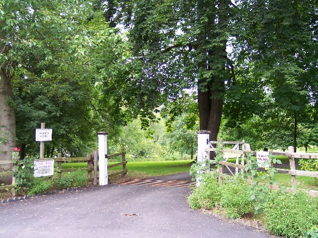 Western Gates to Mathon Court. Now the HQ of Desire Petroleum Website